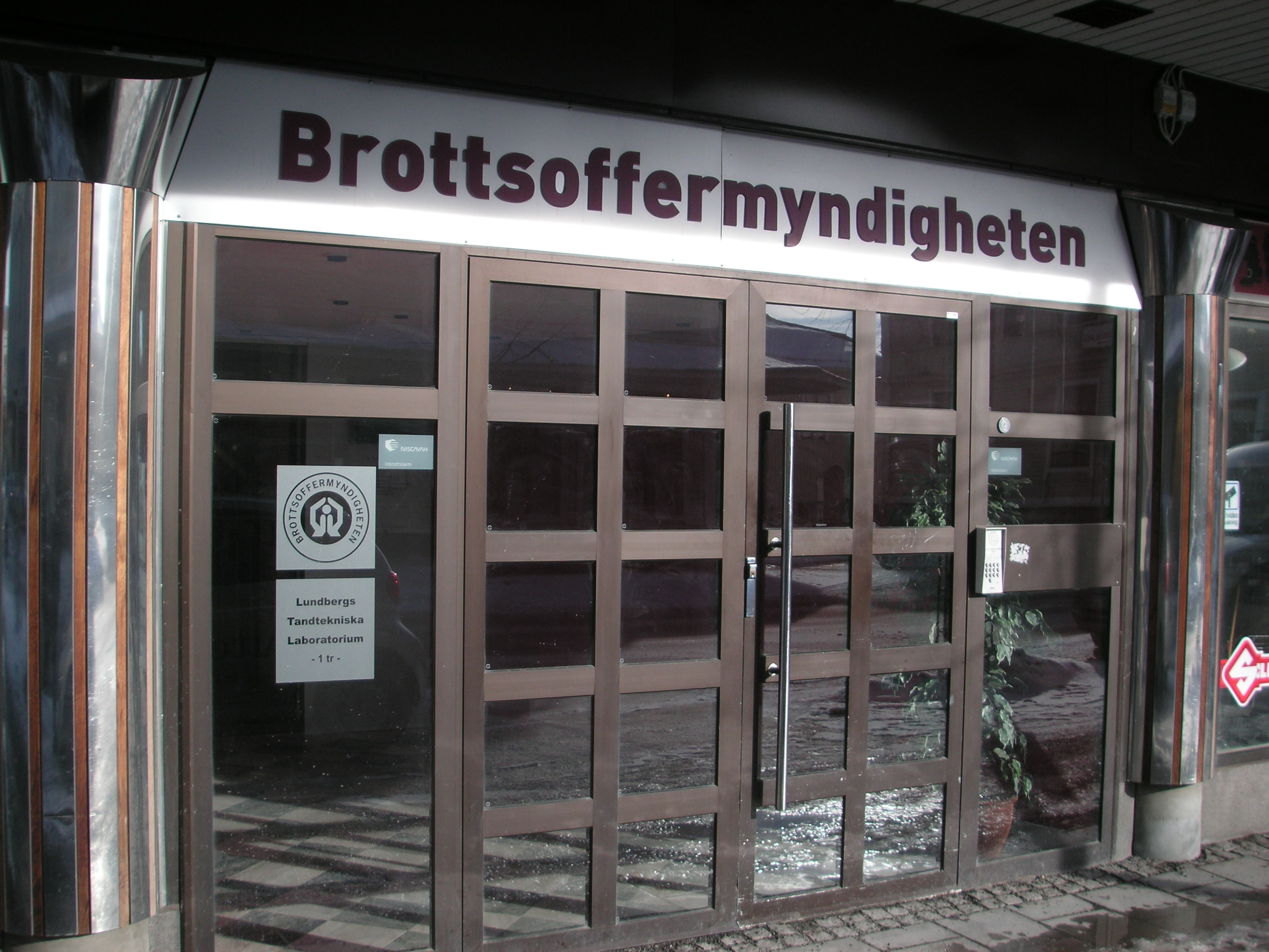 Crime victim's fund organization "Brottsoffermyndigheten", based in Umeå, Sweden.